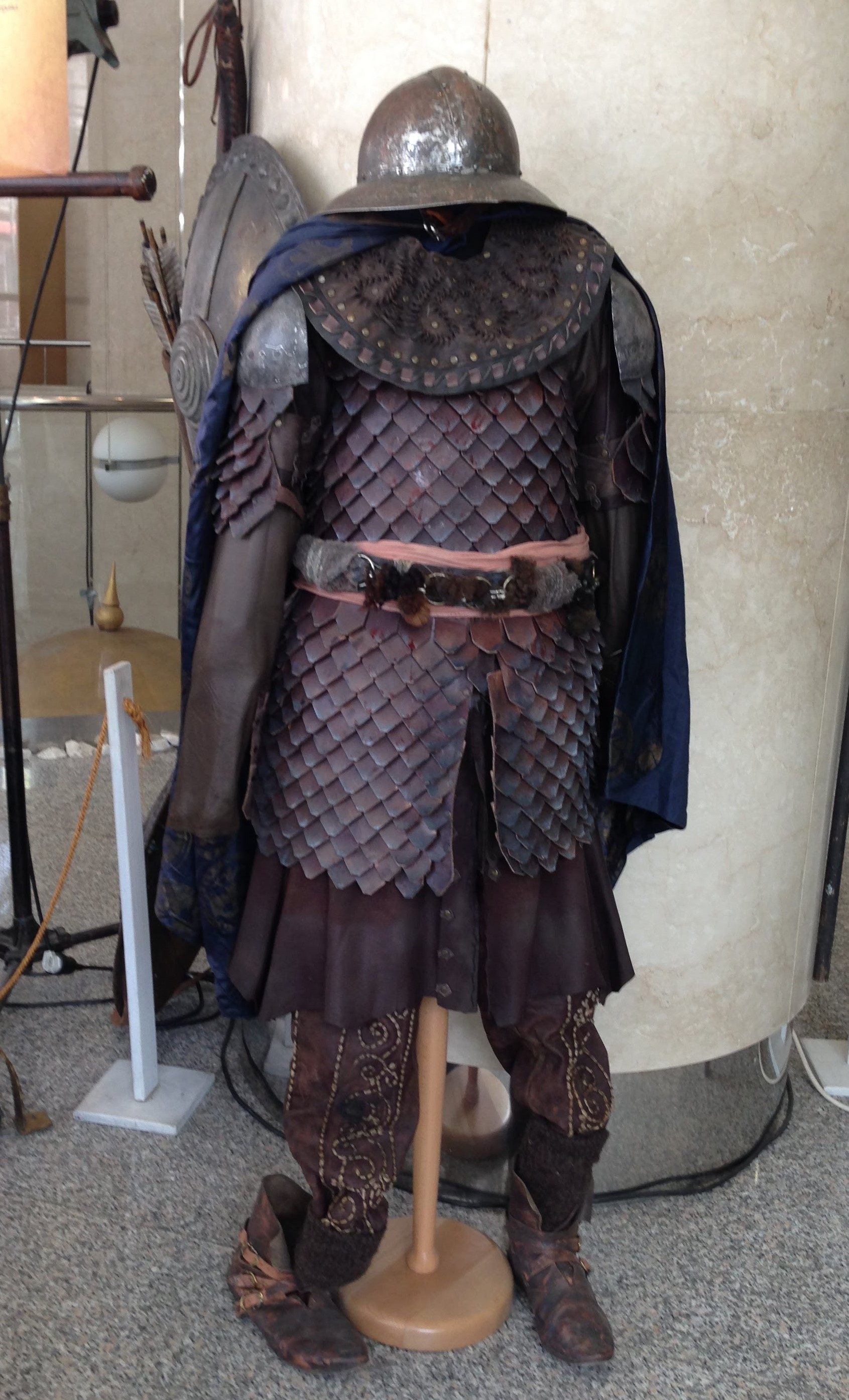 Costimography for the Nemanjići series - The Birth of the Kingdom 2018. RTS Serbia